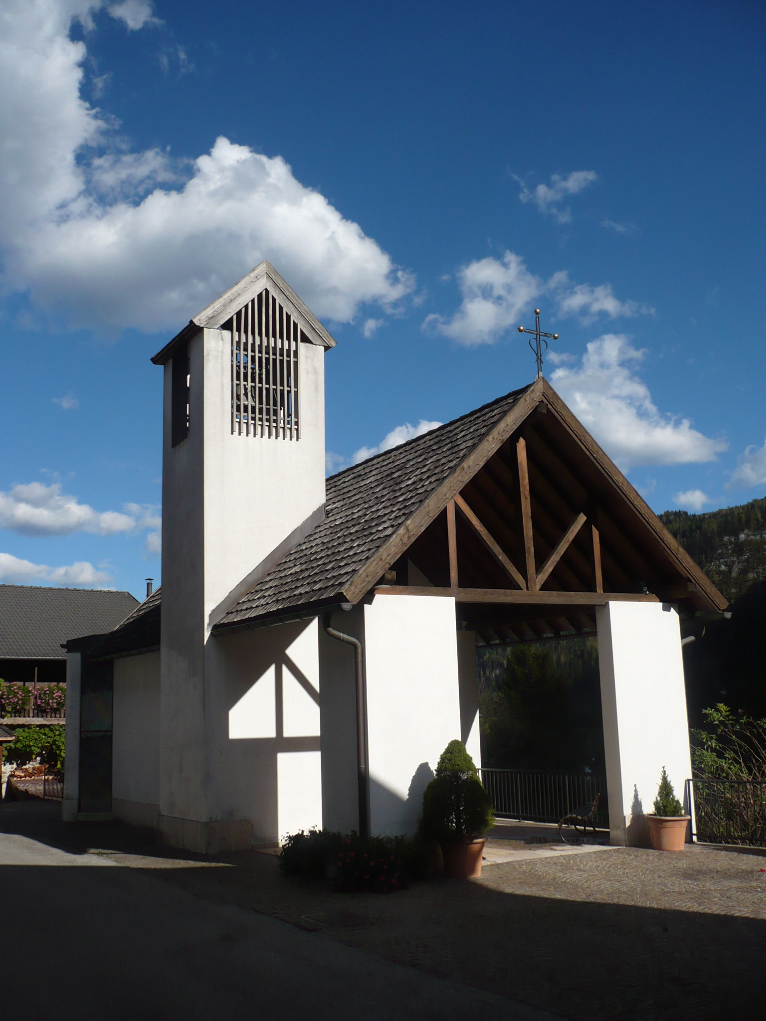 The church of the village Masi, in the comune of Imèr, province of Trento, ItalyEsperanto: Katolika preĝejo de vilaĝo Masi, en la komunumo Imèr, provinco Trento, Italio